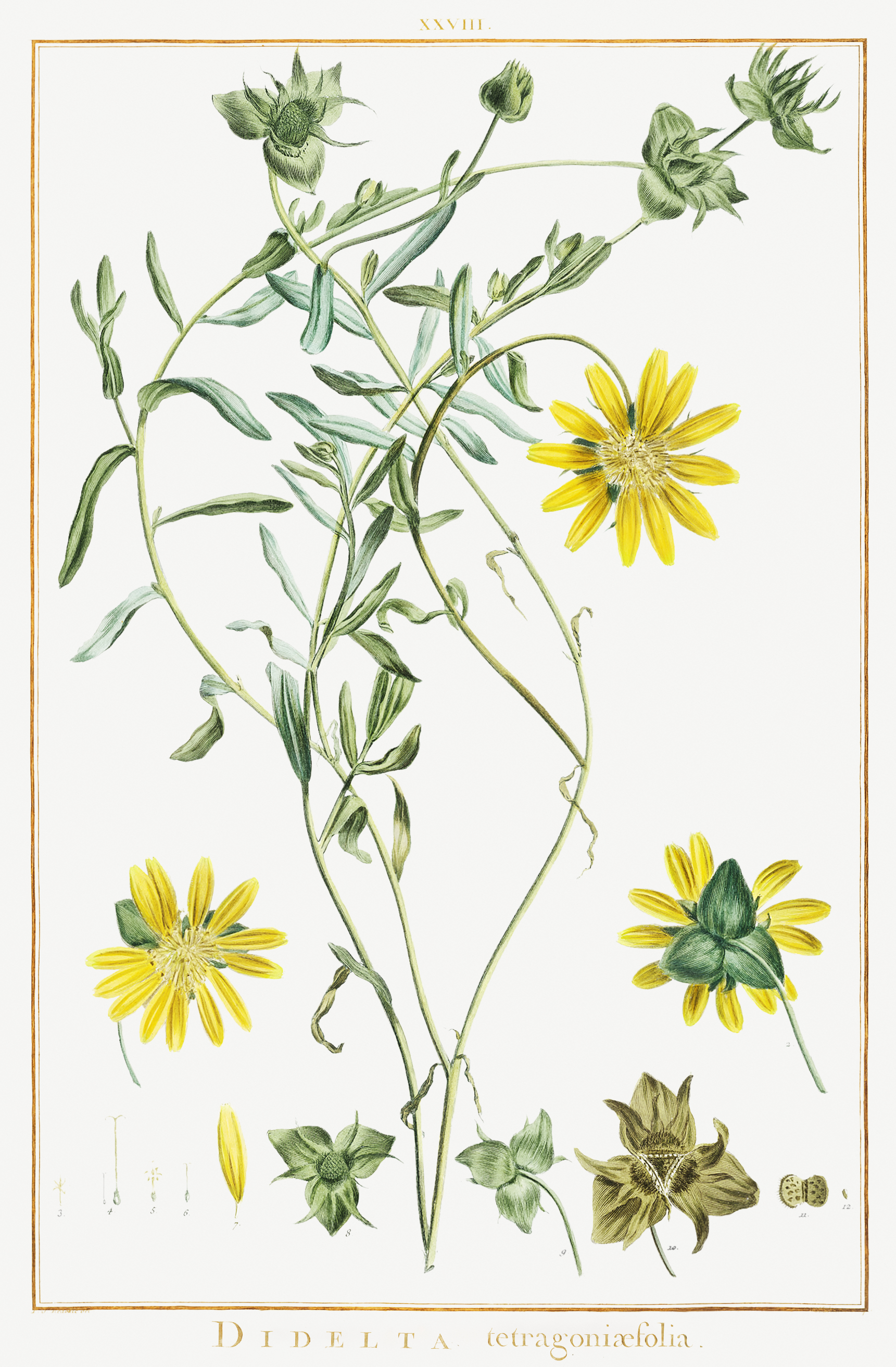 Didelta tetragoniaefolia (synonym of Didelta carnosa), an image created by by Pierre-Joseph Redouté that was published in Stirpes Novae aut Minus Cognitae (1784) by Charles Louis L'Héritier de Brutelle. This is a digital enhancement by rawpixel of anoriginal from the Biodiversity Heritage Library.